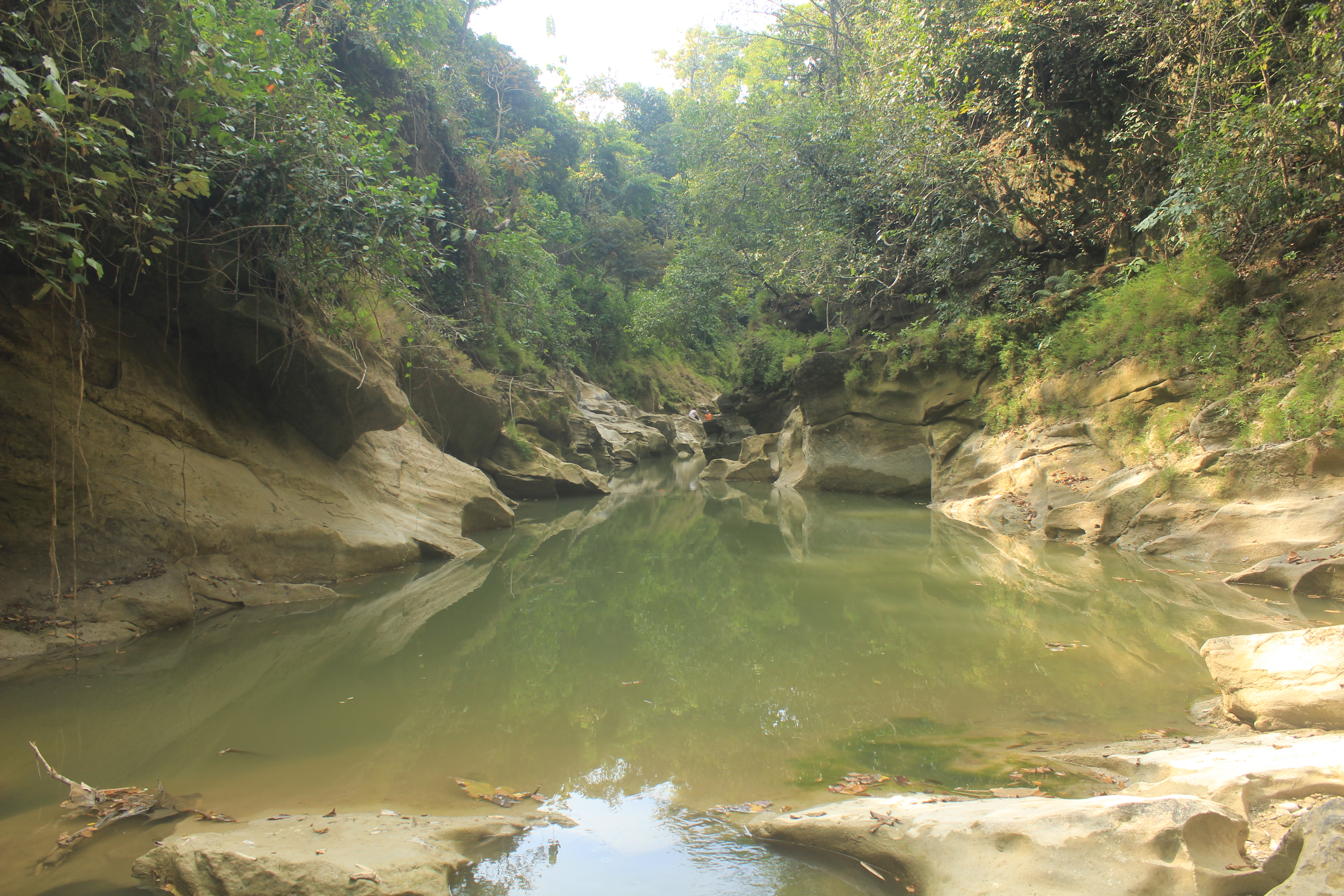 Upside of Green Canyon or Kedung Cinet Jombang